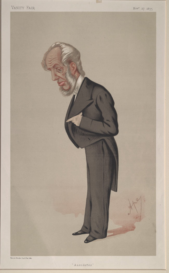 Men of the Day No.117: Caricature of Mr A Hayward QC. Caption reads: "Anecdotes"